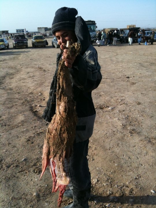 The carcass of a headless goat used in Buzkashi. This is equivalent to the football in soccer. Afghanistan's national sport